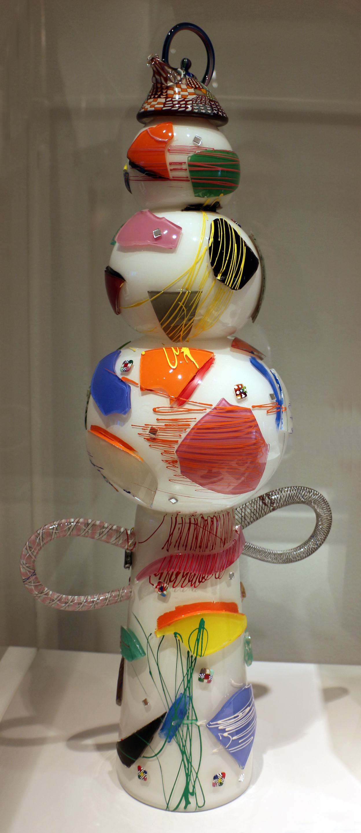 Glassware in the Indianapolis Museum of Art